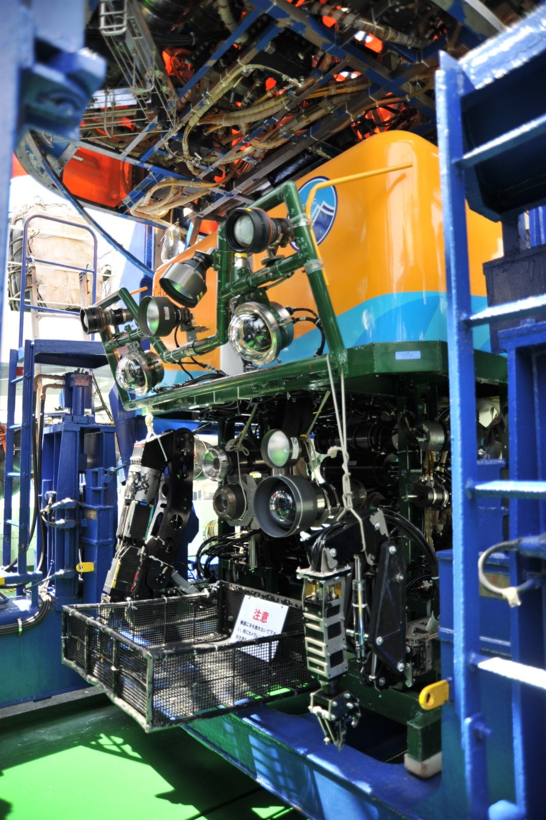 Remotely Operated Vehicle (ROV) Kaiko 7000ⅡVehicle